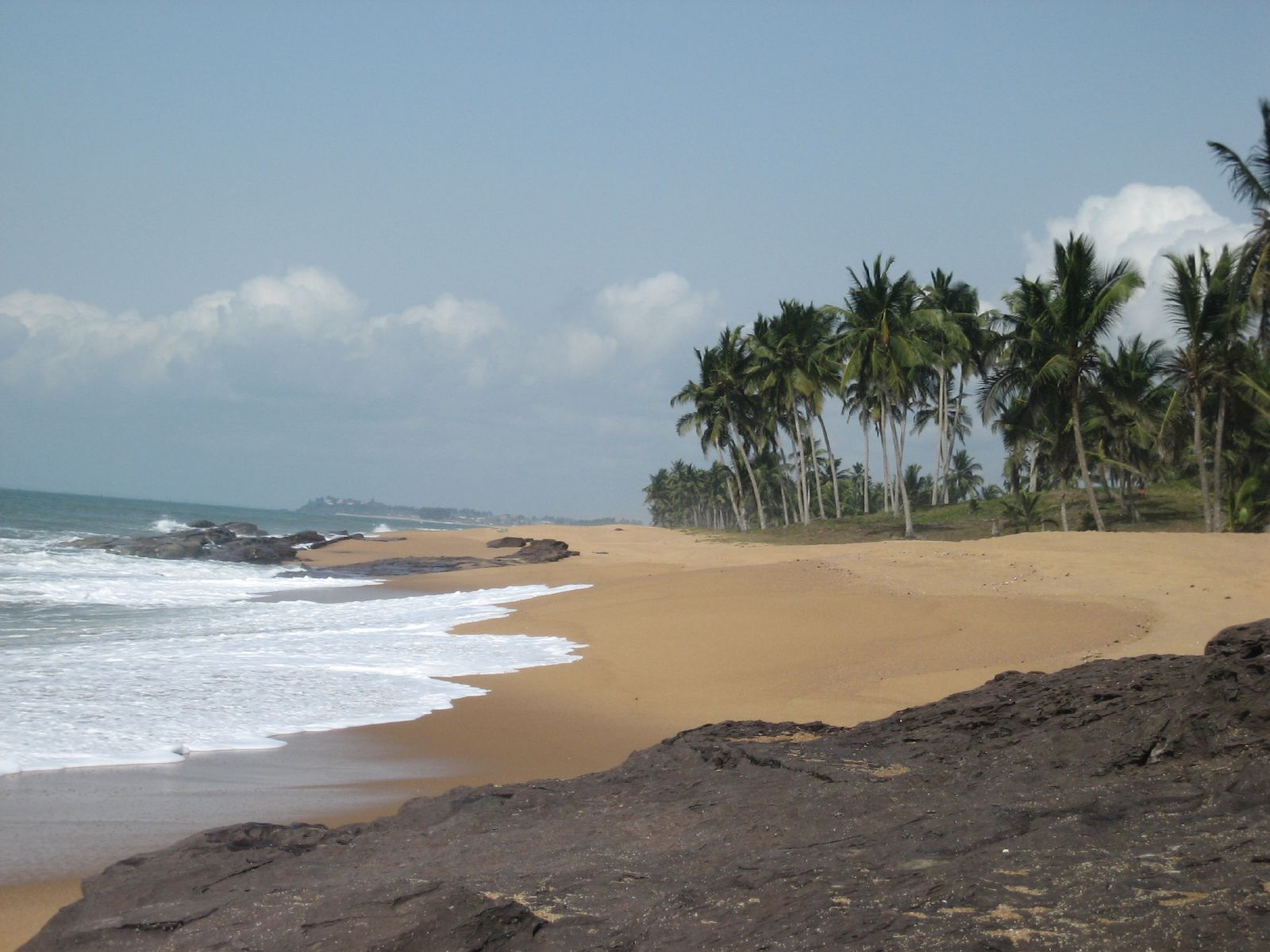 Beach with palms in Ghana, Westafrica